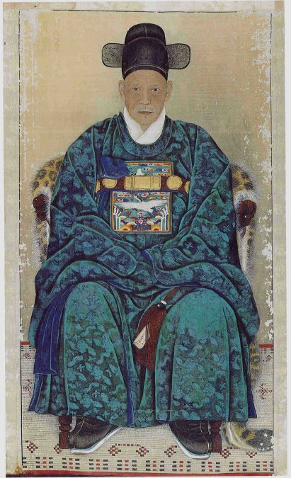 Portraits for Choe Ik-Hyeon by Chae Yong-sin